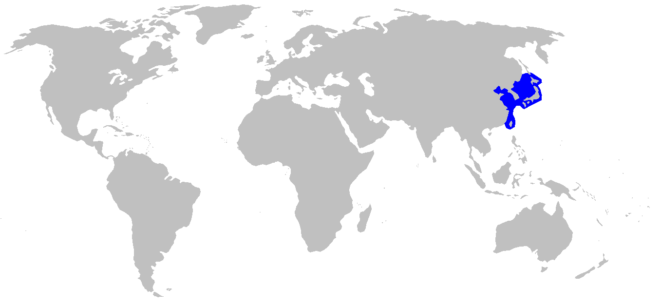 Distribution map for Triakis scyllium